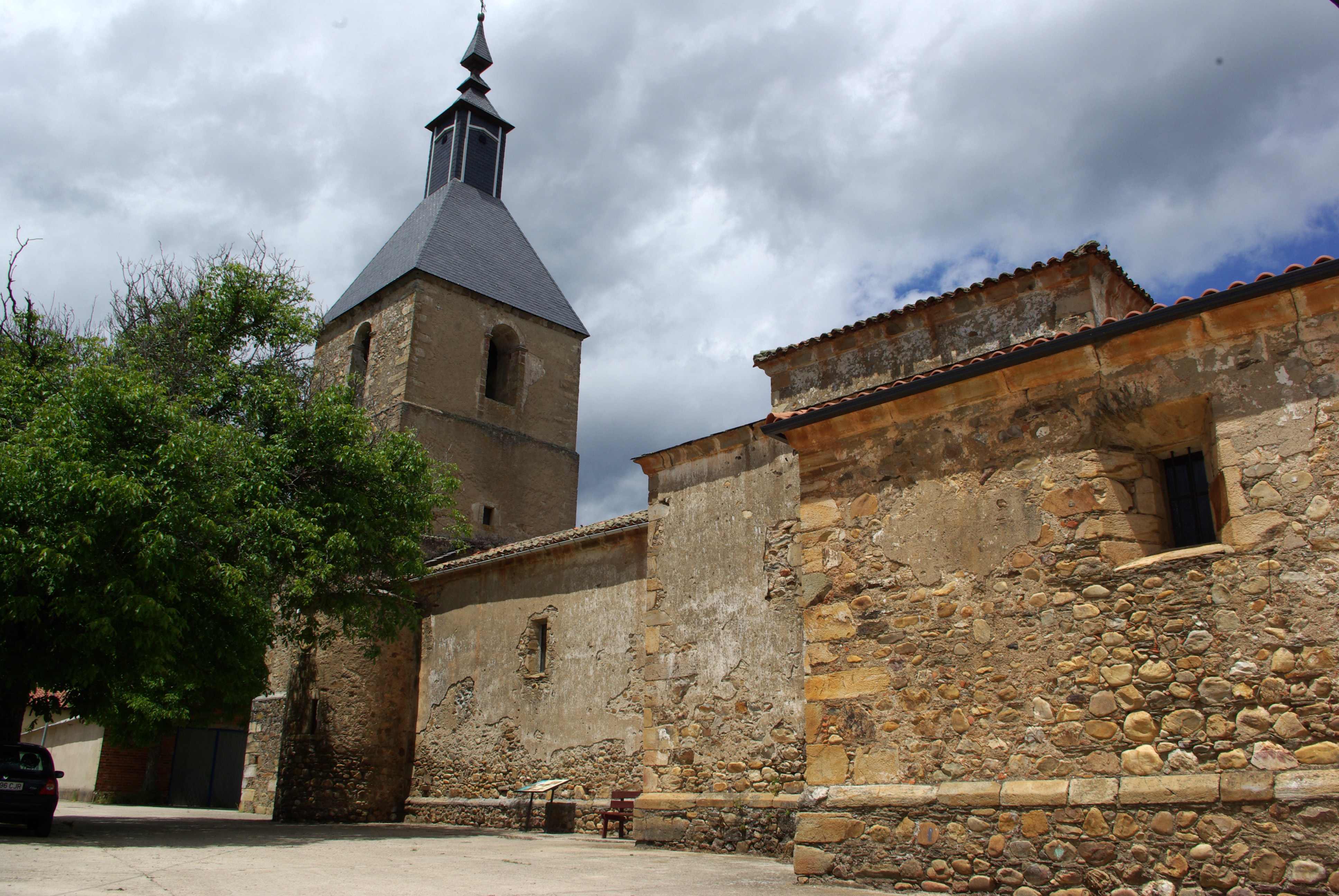 Sanctuary of La Garandilla (Valdesamario León, Spain).